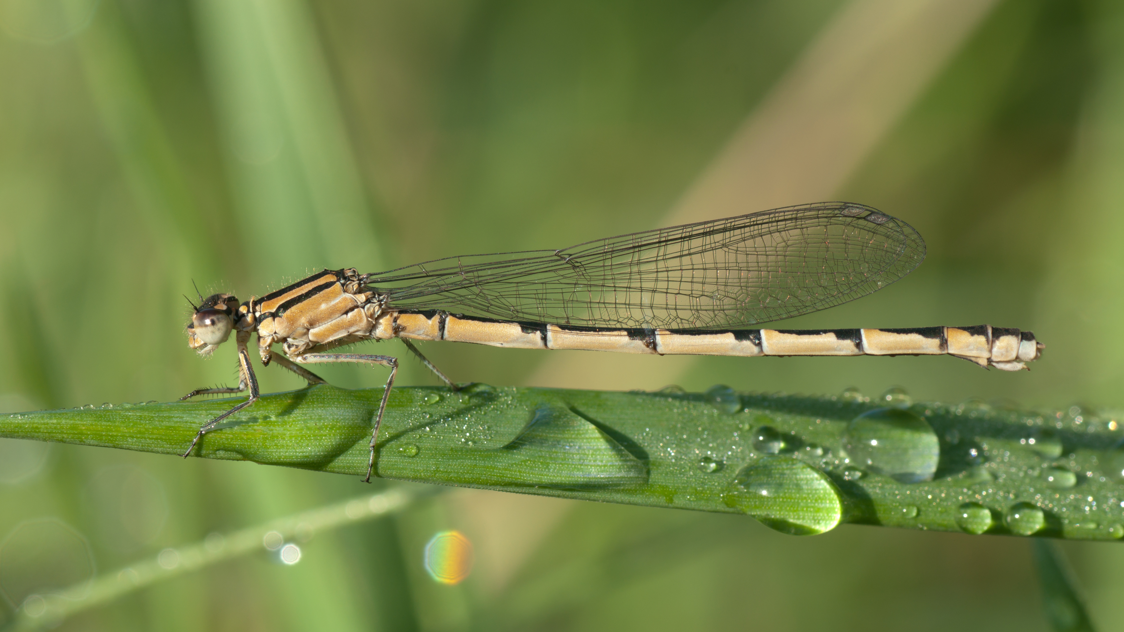 a young female Common Blue Damselfly The Common Blue Damselfly or Northern Bluet (Enallagma cyathigerum) is a European damselfly. The species can reach a length of 32 to 35 mm. It is common in all of Europe, except for Iceland.